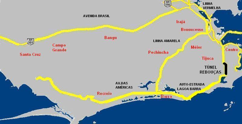 Túnel Rebouças - Rio de Janeiro-RJ - Brasil